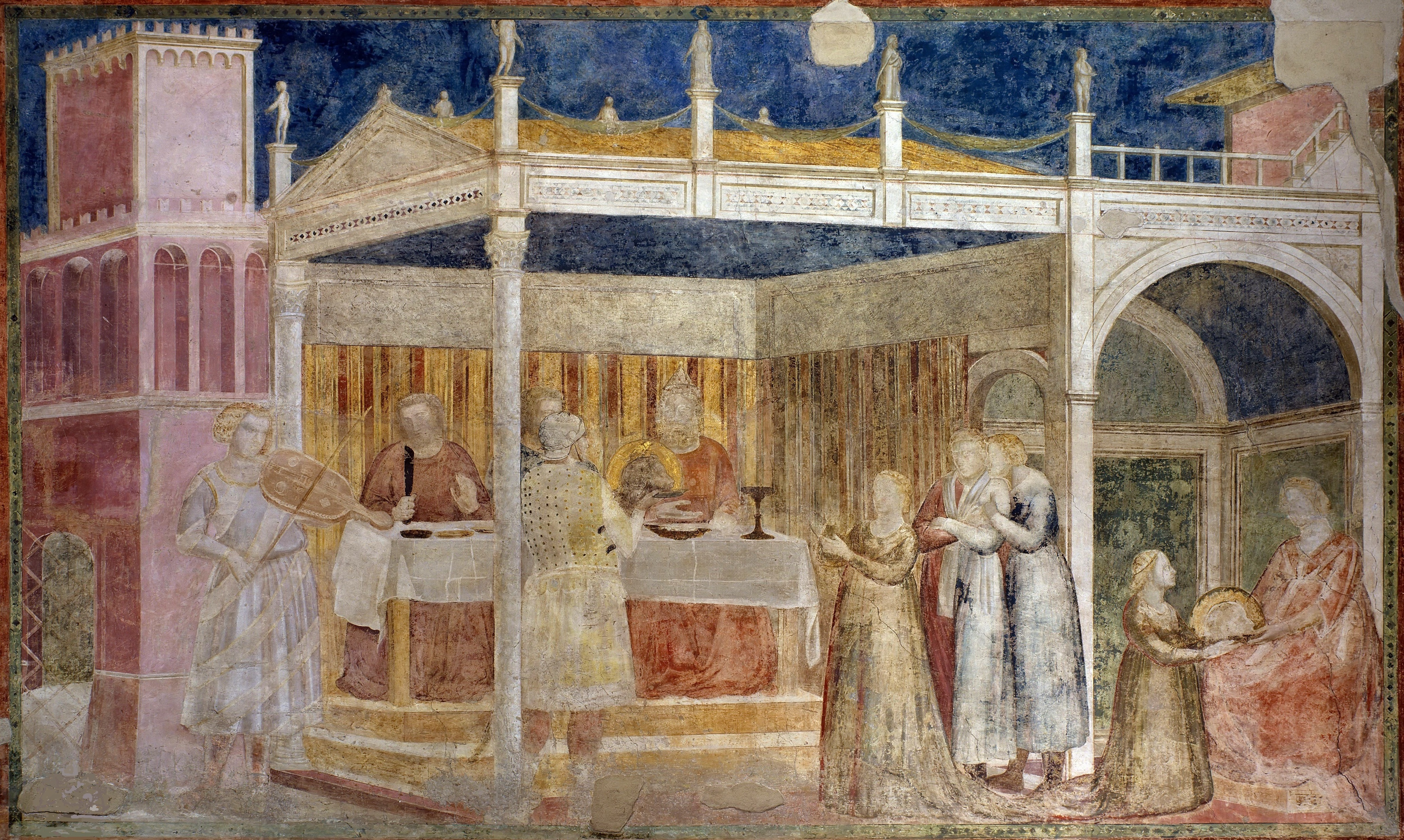 Giotto, Feast of Herod, 1315-25, Peruzzi Chapel, Santa Croce, Florence